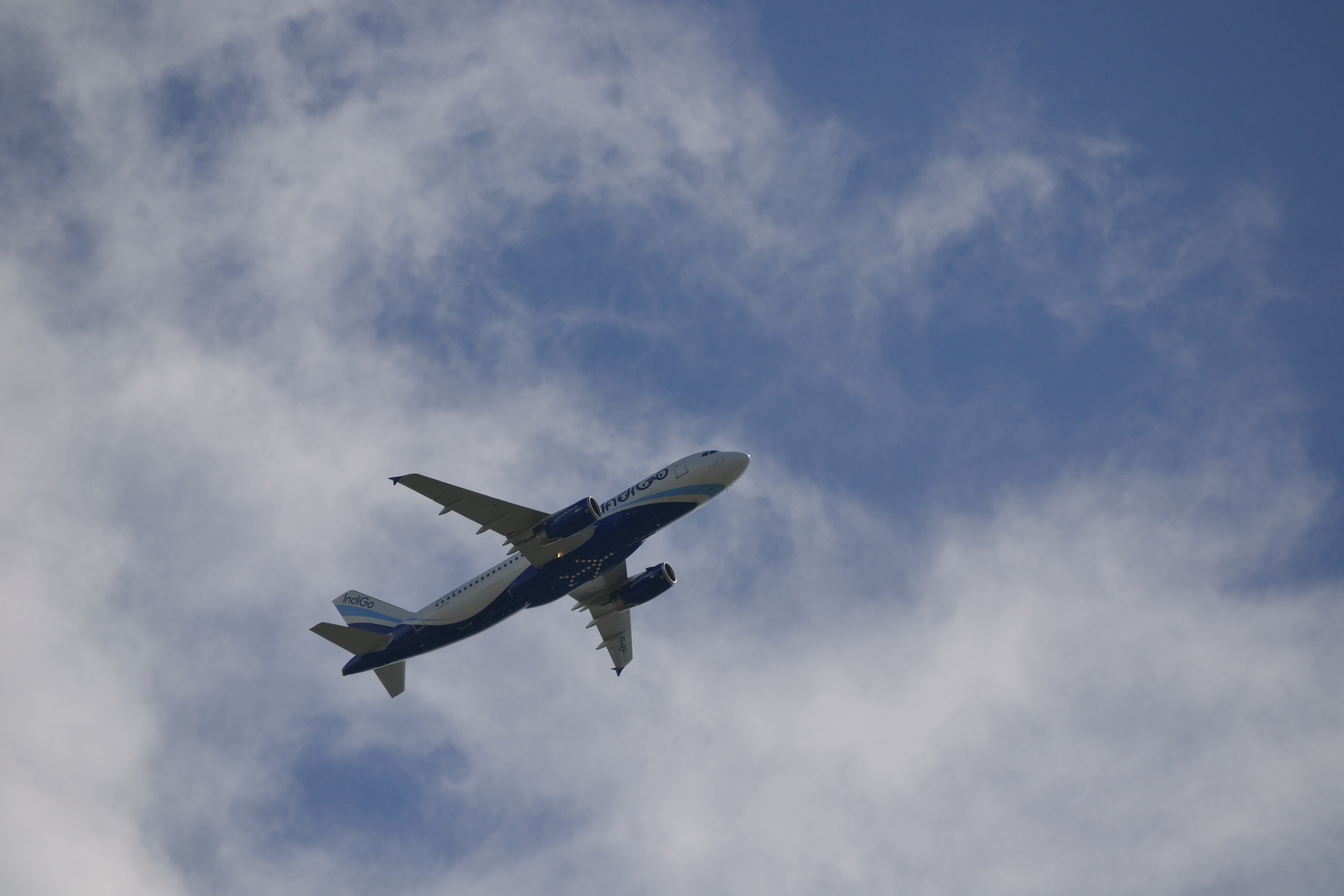 Photographed at Salt Lake City, Kolkata.